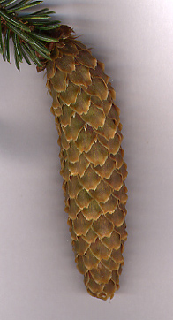 Picea sitchensis cone